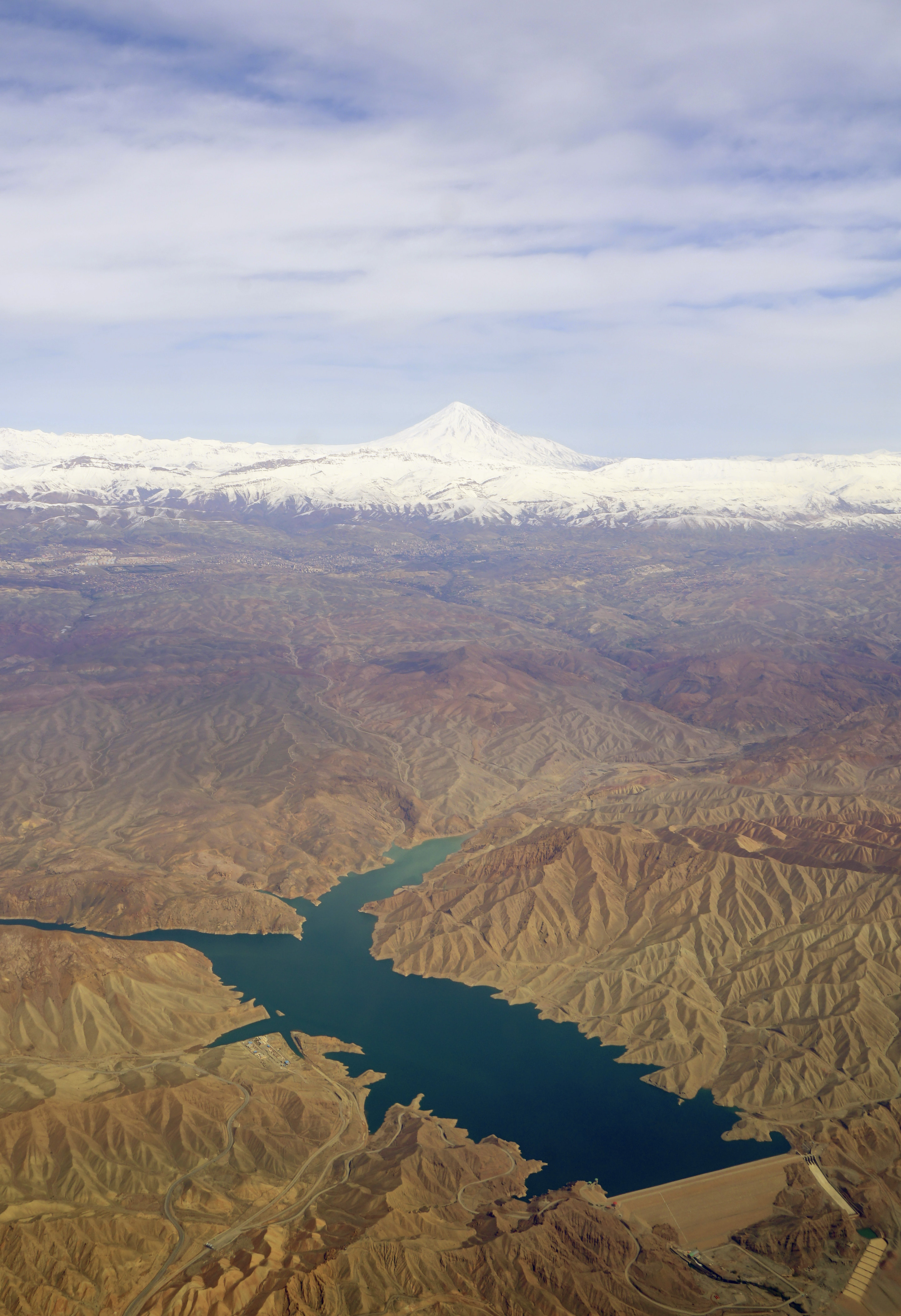 Aerial photo of Sad Mamloo (foreground) and Damavand (background).